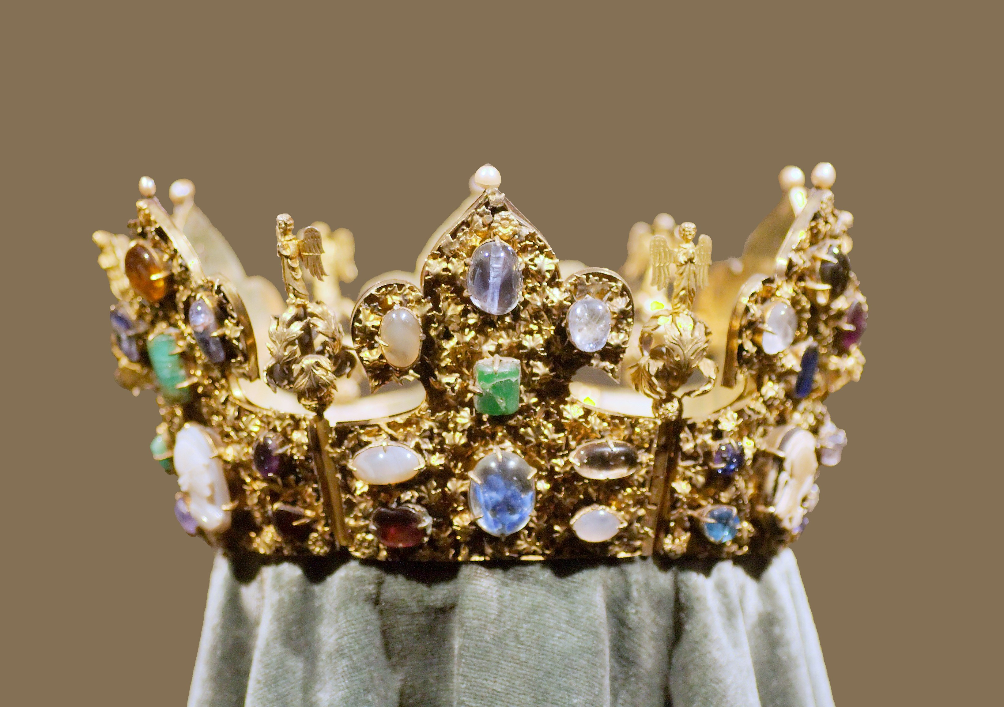 Cron of emperor Heinrich II, at 1270. Issued in the Treasury, Munich.